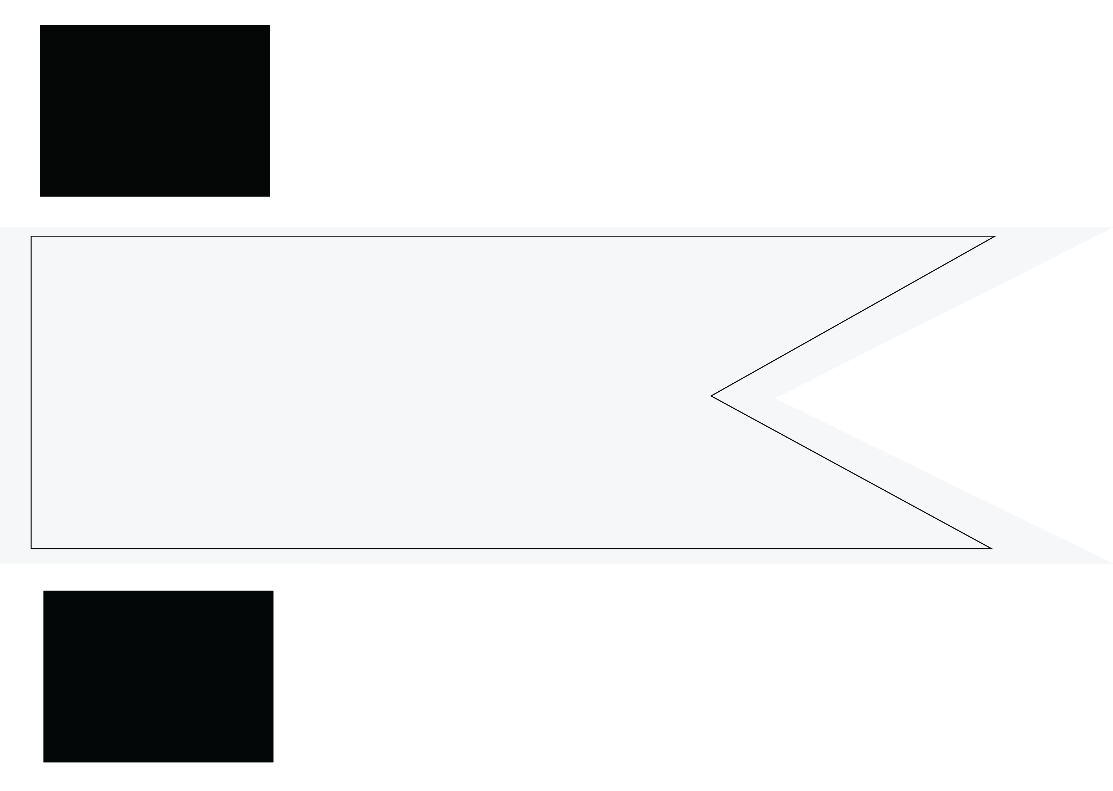 Based on David Nicolle "Armies of the Muslim Conquest" illustrations by Angus McBride. And Martin Hinds "The Banners and Battle Cries of the Arabs at Siffin" Al-Abhath XXIV